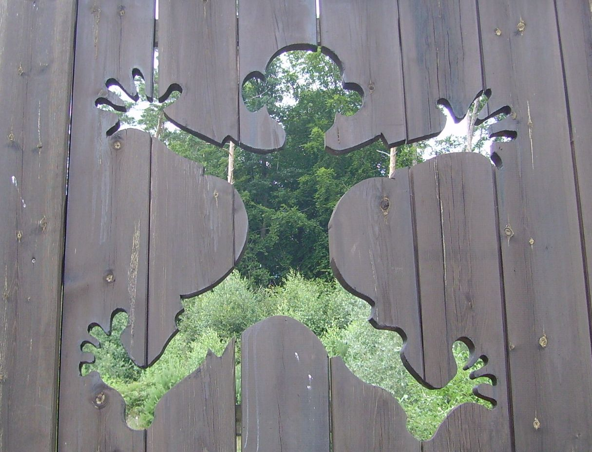 Figur im Zaun, Legoland Deutschland